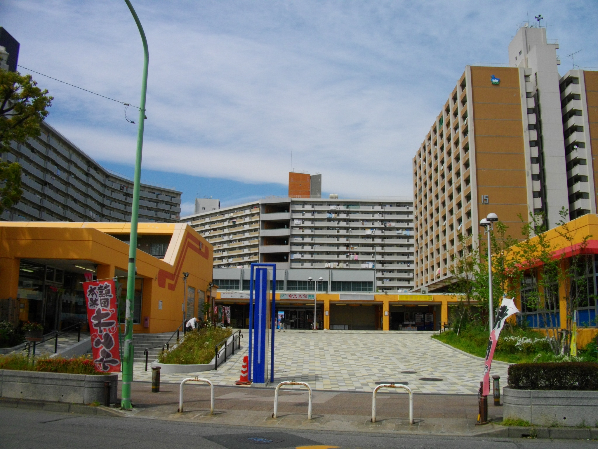 Shibazono Danchi(Apartment buildings)